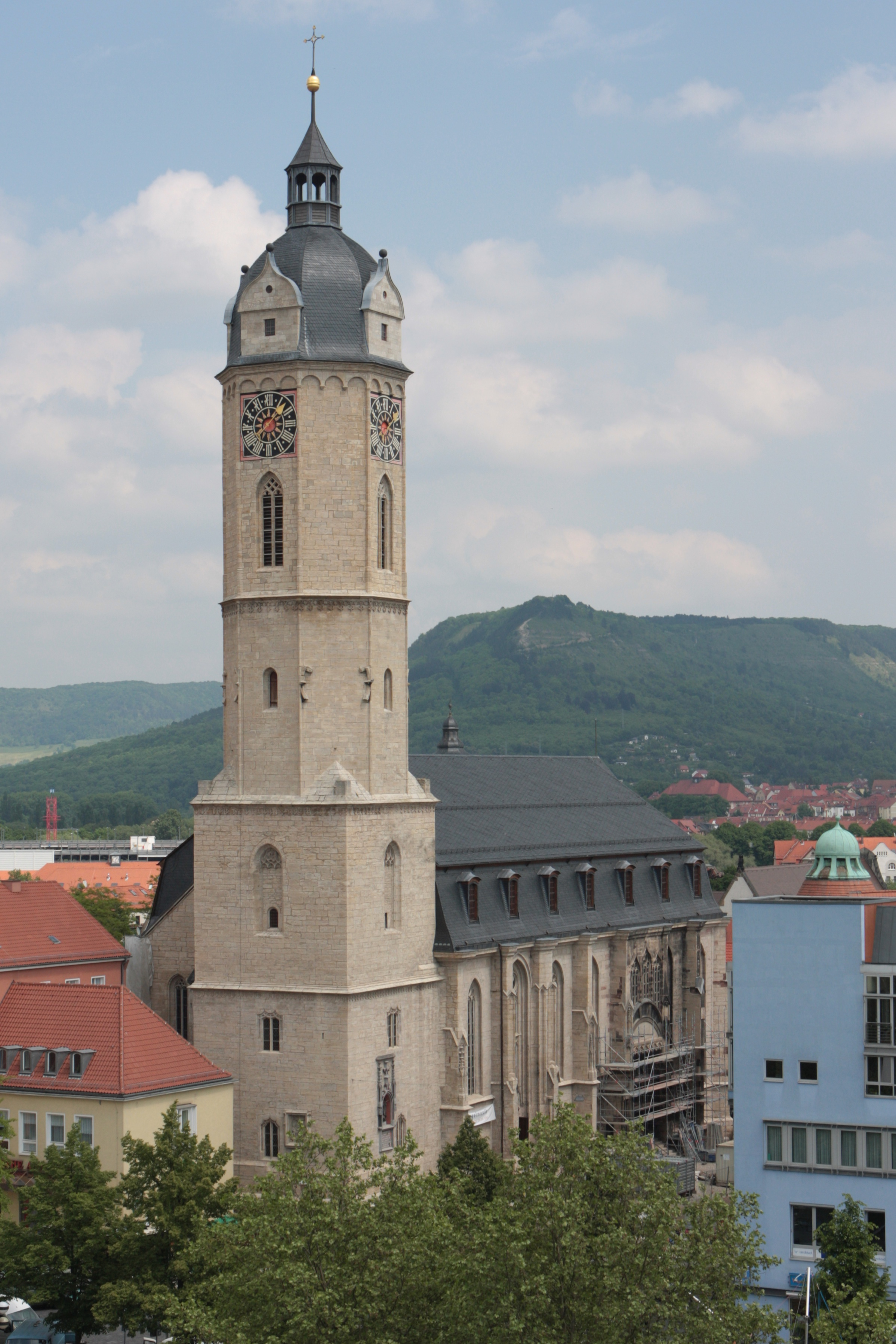 St. Michael church in Jena (Germany)